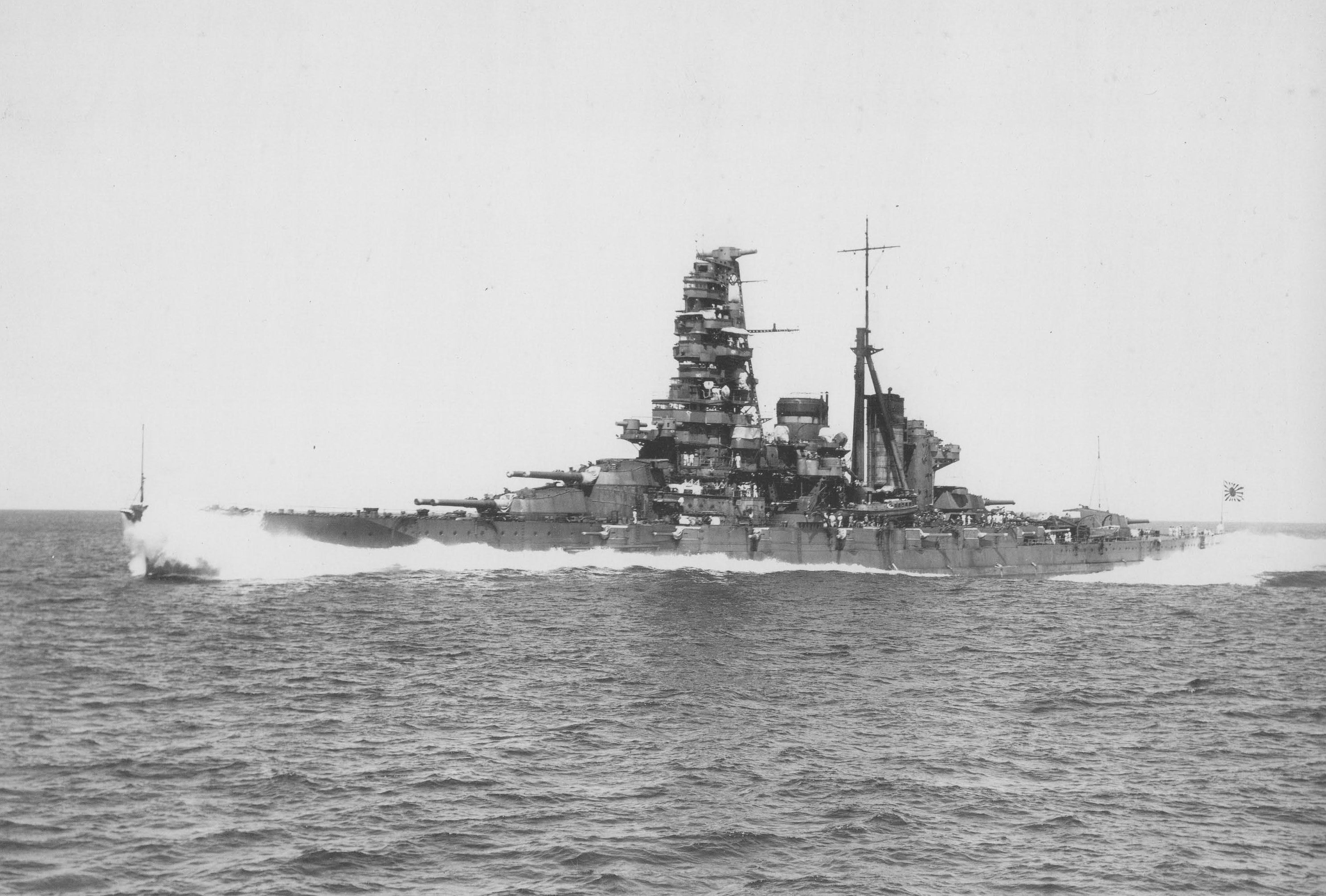 Imperial Japanese Navy battleship Haruna undergoes trials after her second reconstruction.